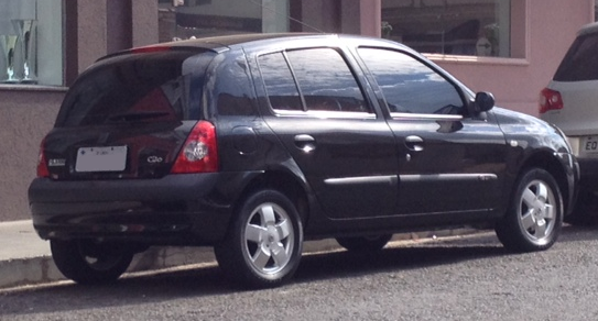 2002-05 Renault Clio Mk2